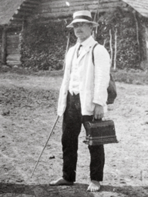 Armas Otto Väisänen (9 April 1890 - 18 July 1969) an eminent Finnish scholar of folk music, an ethnographer and ethno-musicologist